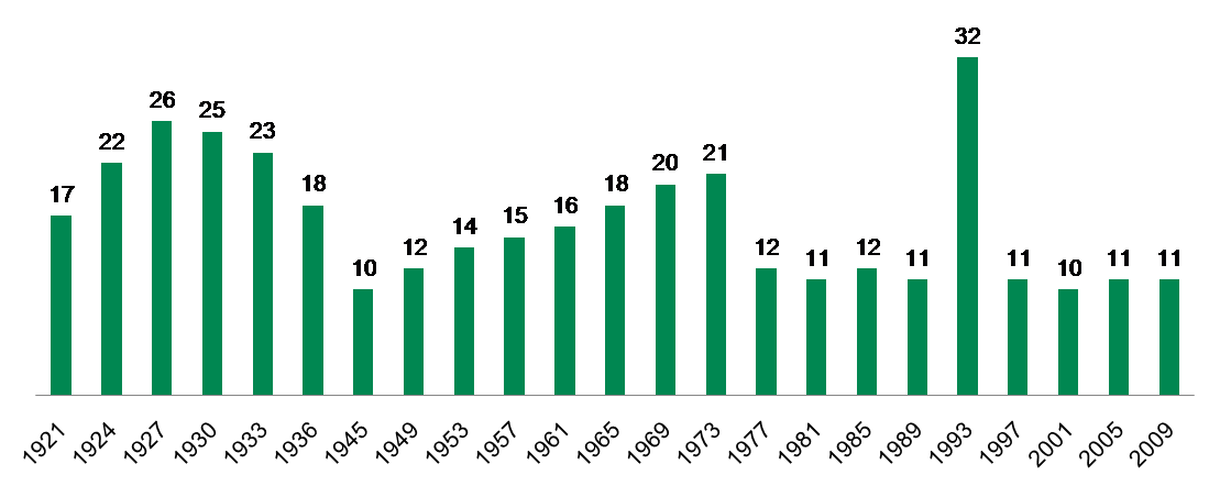 Seats of the Norwegian Center Party since 1921.